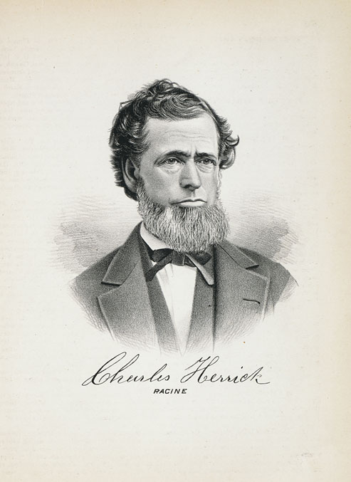 Scan of a steel engraving of a bearded man: former Wisconsin State Senator Charles Herrick of Racine County, Wisconsin.